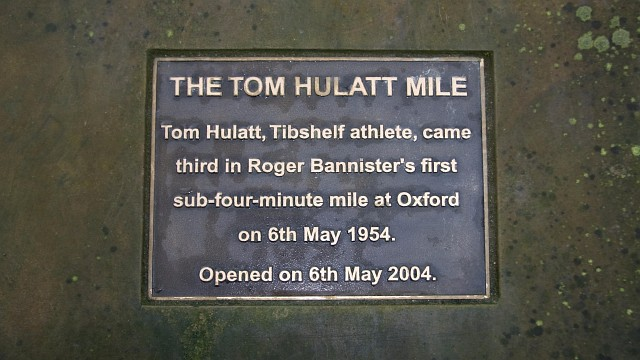 Plaque This memorial plaque is in remembrance of Tom Hulatt, a Tibshelf athlete who came third in Roger Bannister's first sub-four-minute mile at Iffley Road, Oxford, 6th May 1954. (Details from: ) See the plaque in its context on the 324323. See also this photograph by Michael Patterson taken at the other end of the 254463. Other web links for Tom Hullat